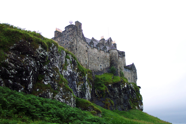 Duart Castle. Another view of Duart. Many will remember it as the home of Robert McDougal (played by Sean Connery) in the film Entrapment. The castle is the ancestral home of the Clan MacLean.